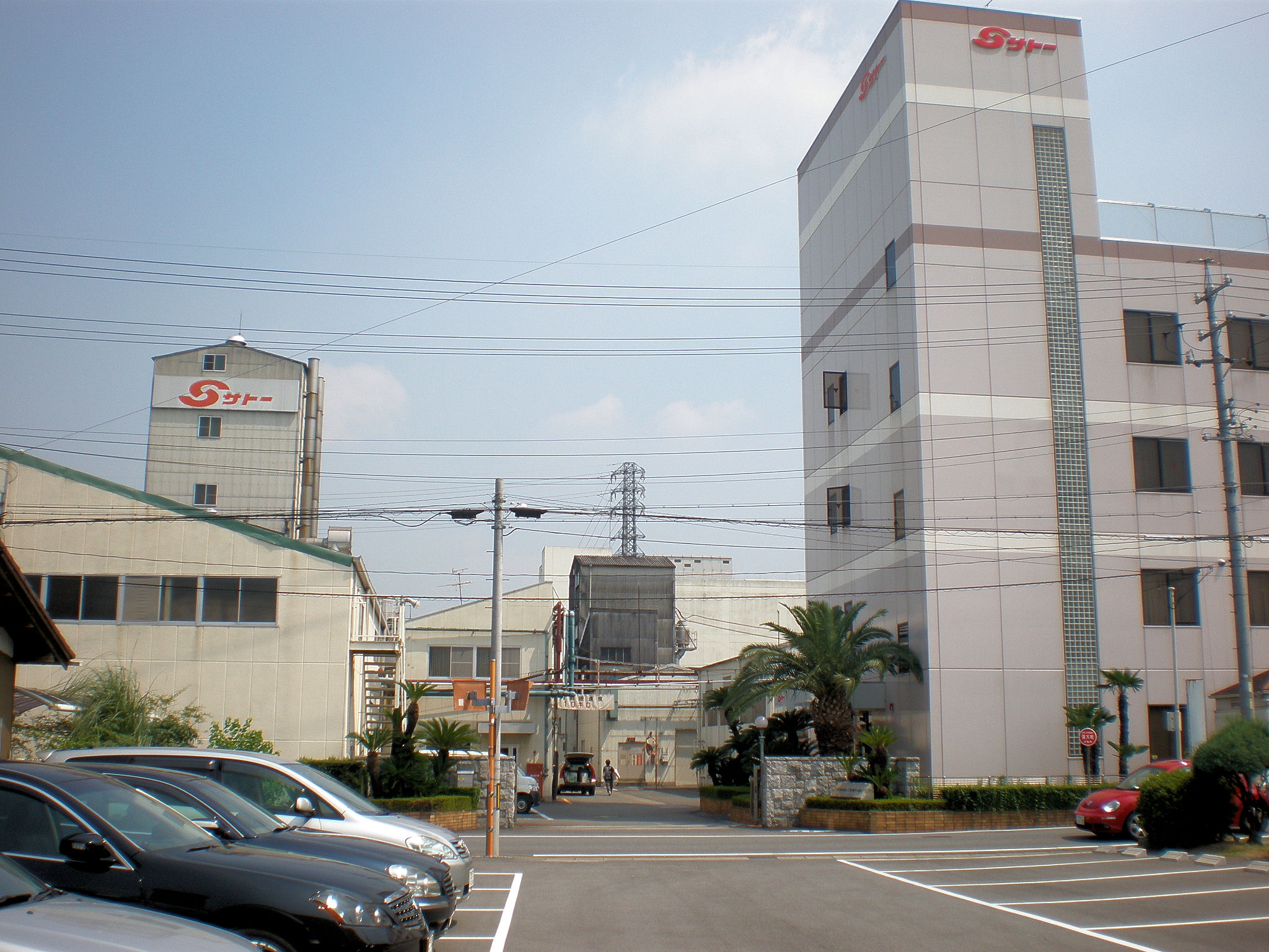 The Head Office of Sato Foods Industries Co.,Ltd. in Komaki, Aichi Pref.